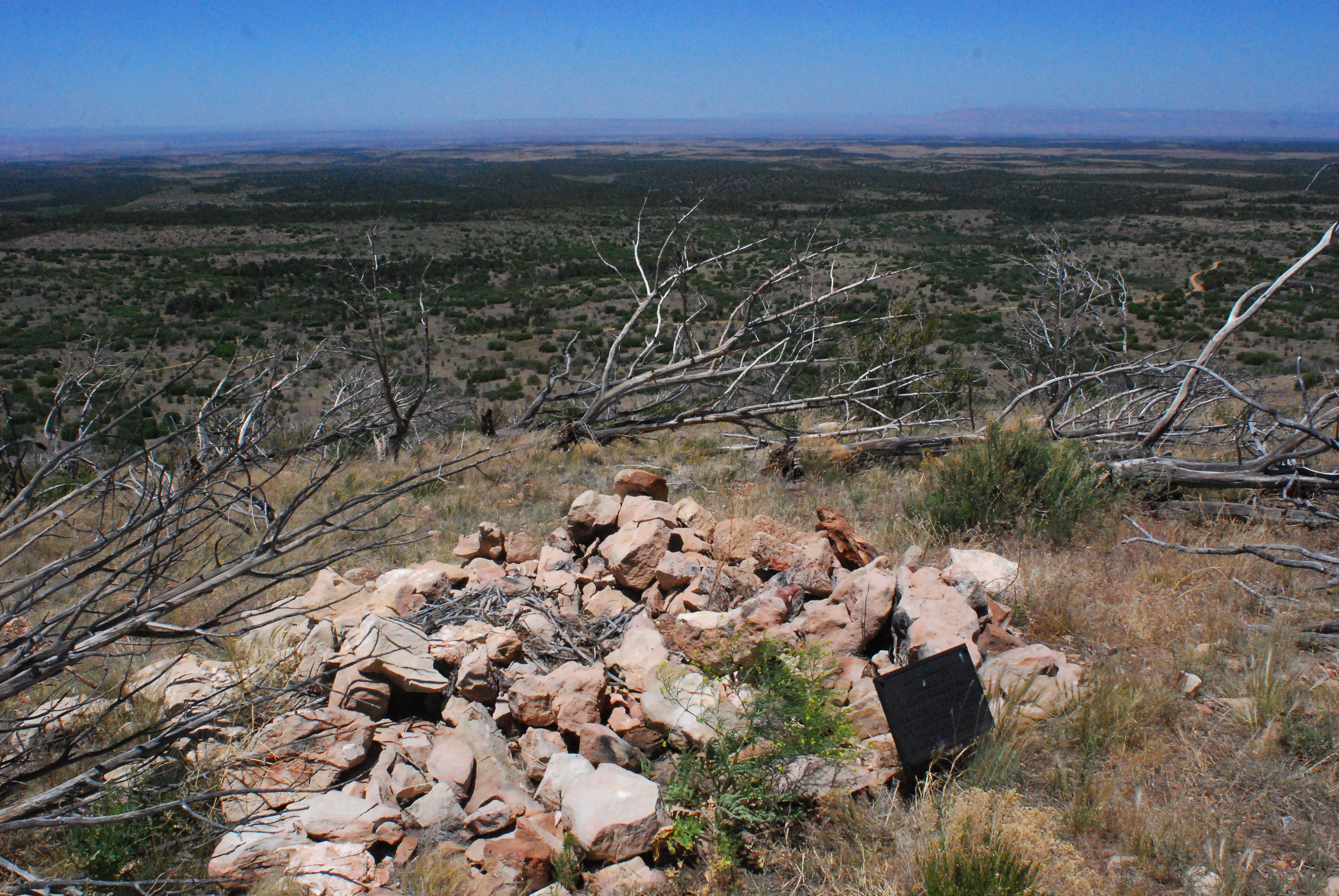 This is a photograph of the original rock pile surveying marker that was laid down by the John Wesley Powell surveying team of 1872. The plaque, indicating that this monument is on the National Record of Historic Places, is seen to the lower right of the cairn.